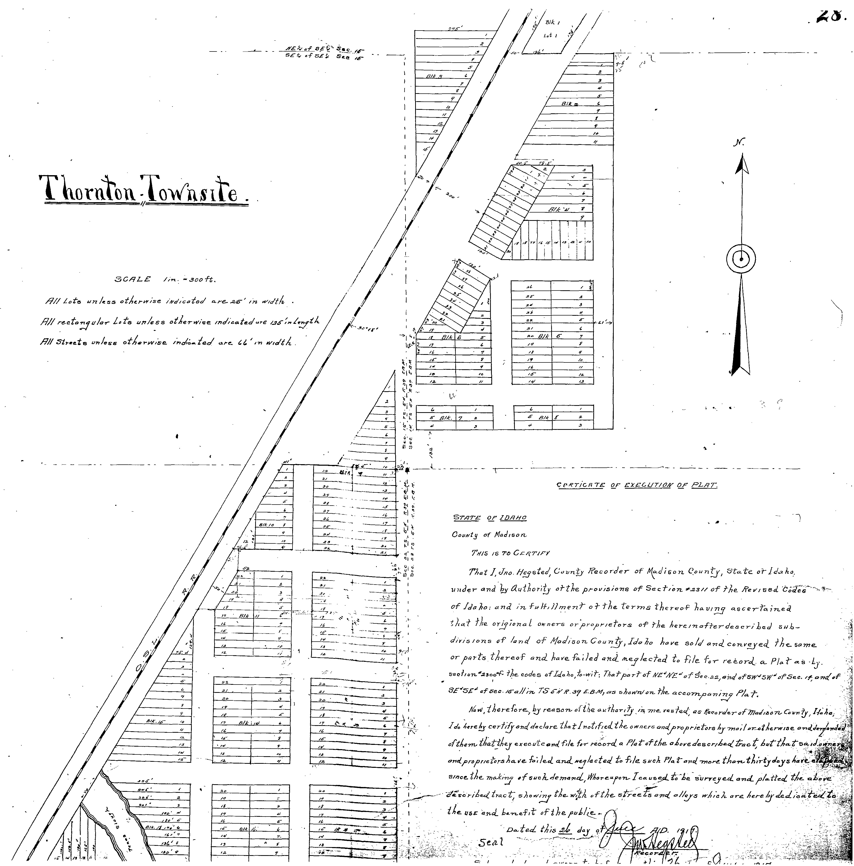 Facsimilie copy of original Certificate of Execution of Plat provided by Madison County GIS department. Used with permission from Madison County: Craig Rindlisbacher